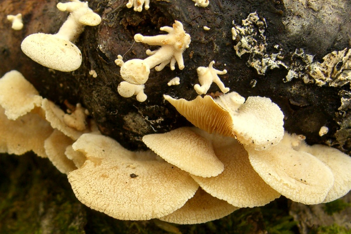 The mushroom Panellus stipticus (Bull.) P. Karst. Photographed in CabinCove, Smoky Mountains, Haywood Co., North Carolina, USA. "Notes: small shelf mushroom clustered on oak limb ST: off-center, stubby up to 8mm long, ~5mm wide, a bit hairier and whiter than cap, solid white flesh CAP: 10-20mm wide, semicirc, pale buff, densely short shaggy scurfy FLESH: white, very thin (much less than 1mm) GILL: fine, relatively close, shallow, occasionally branched, shallow cross walls, pale cinnamon brown SPORE: print pure white"